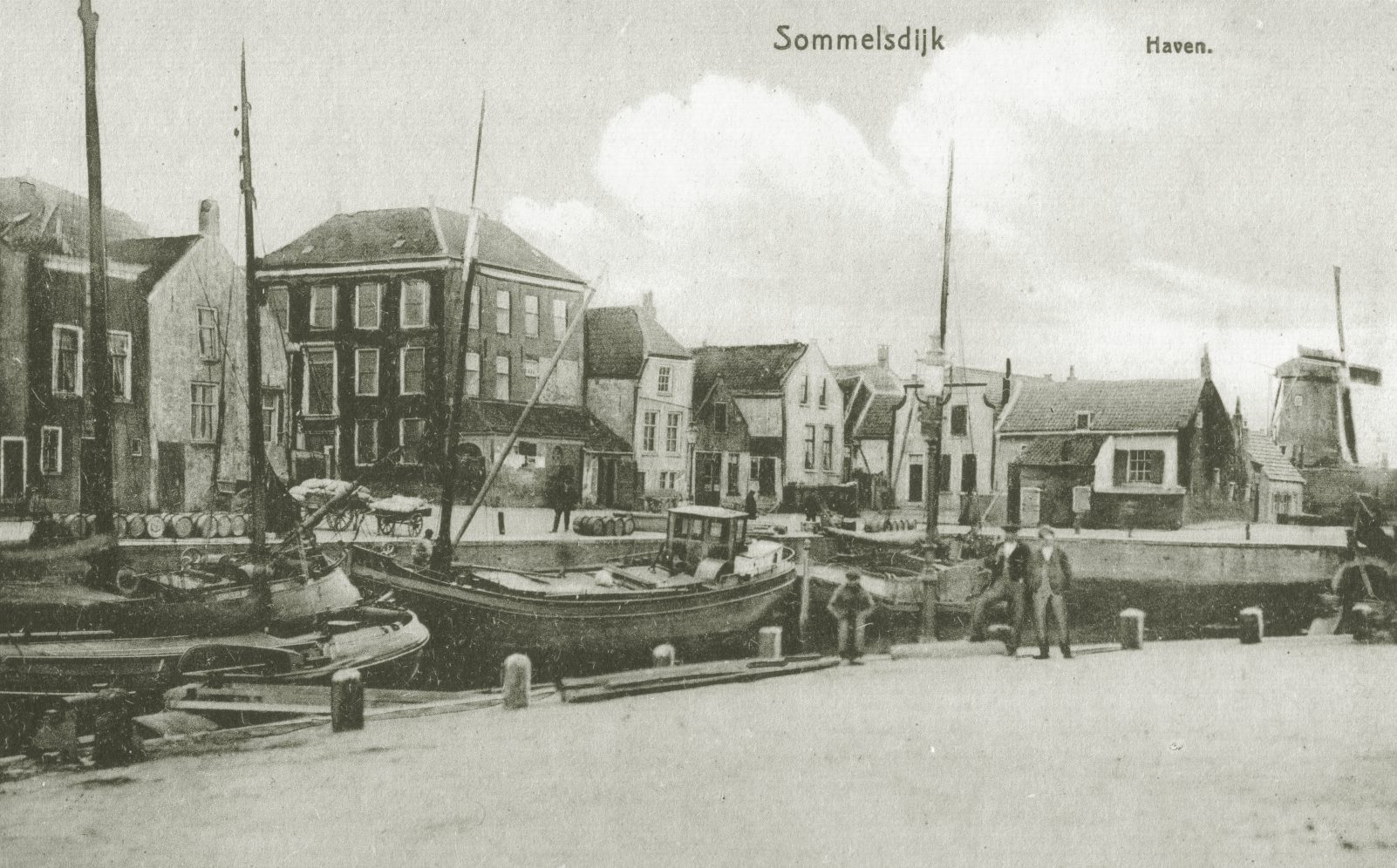 Old card of Sommelsdijk, showing the harbour and the windmill.